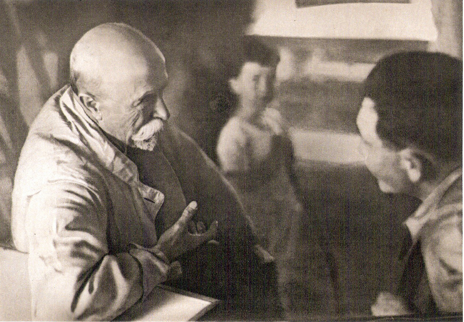 TG Masaryk visit Beth Alfa, Palestine